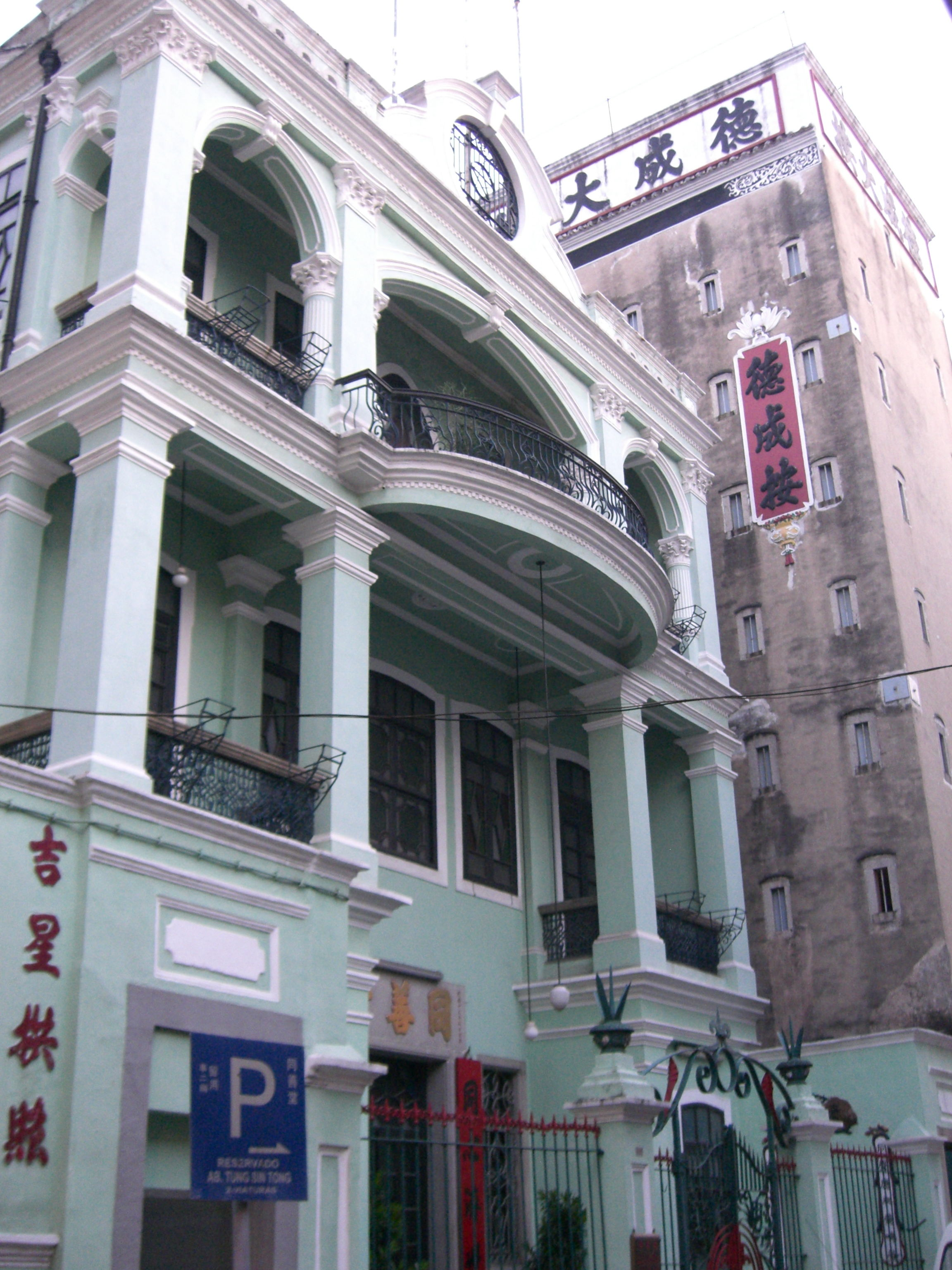 Macau Tung Sin Tong Charitable Society 澳門同善堂